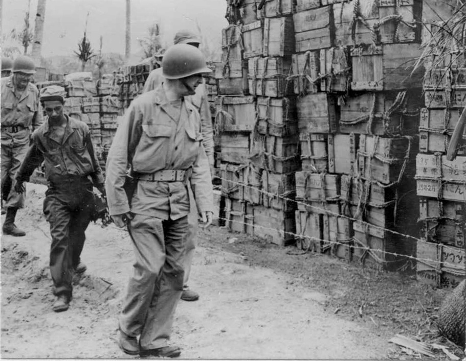 7/14 Saipan. Lieutenant General Robert G. Richardson, Jr., Commanding General, CPA (Central Pacific Area) passes huge stores of captured foodstuffs now used to feed civilian internees on Saipan. Laudansky [photographer?]. 10/01/1944. (ref:W-CPA-44-6953)